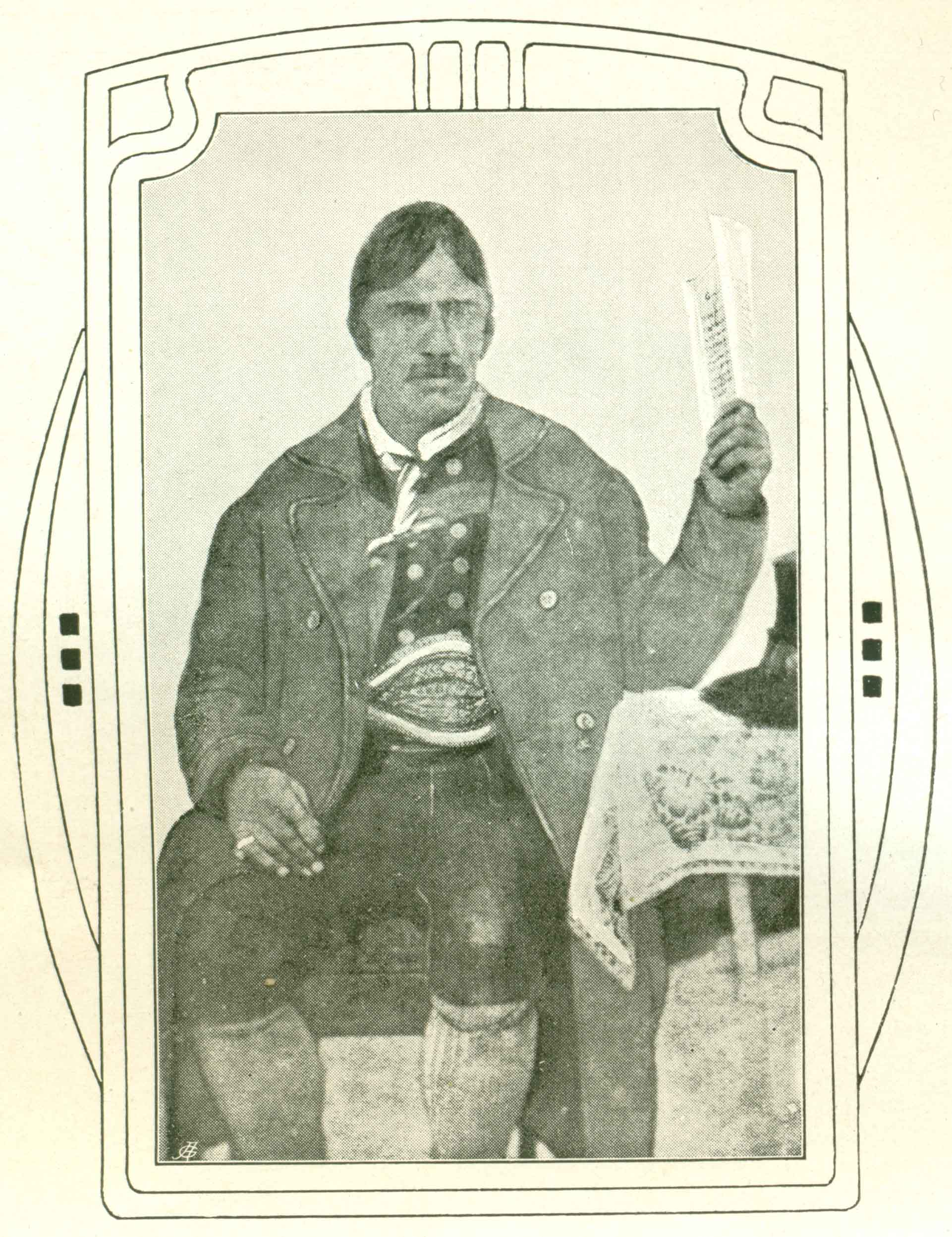 Christian Blattl jun. (1805-1865) Tyrolian songwriter